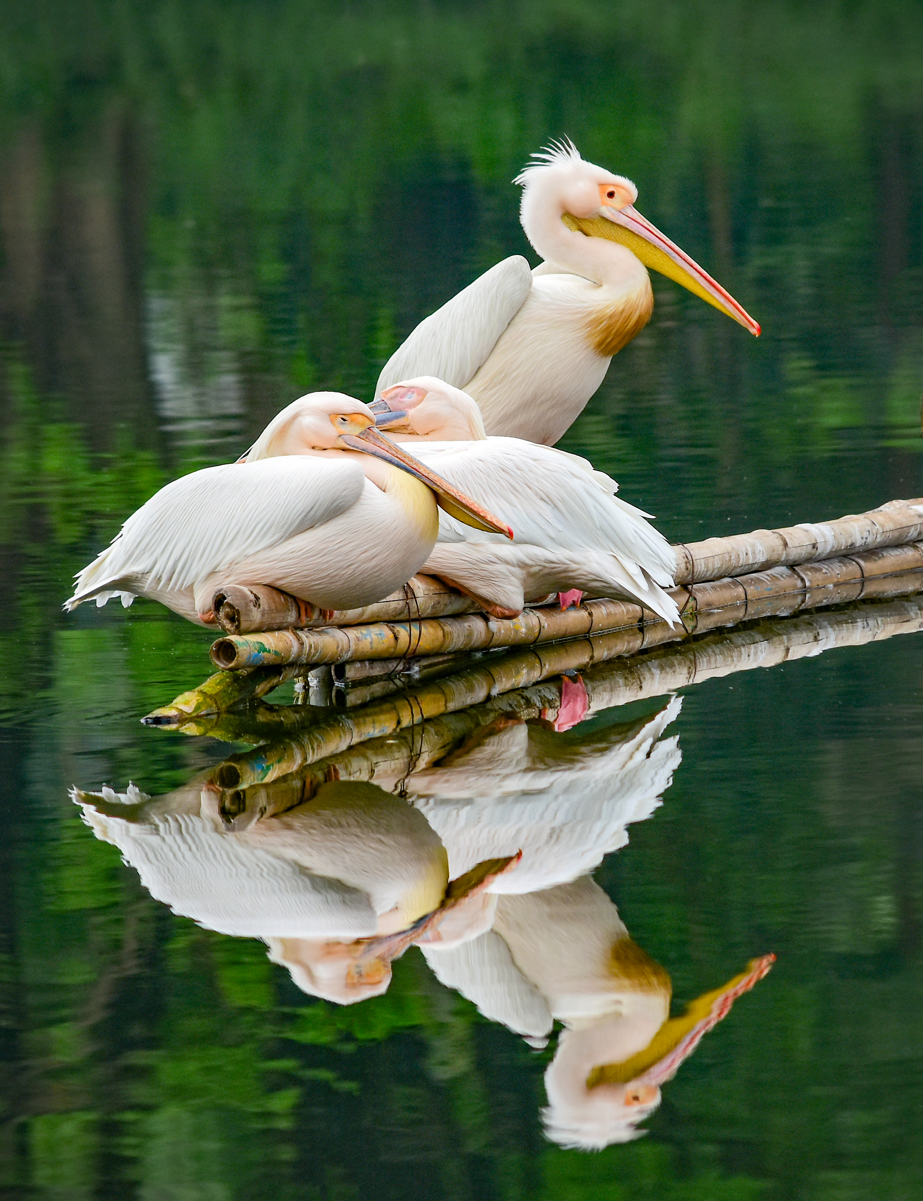 Pelicans, a genus of large water birds that make up the family Pelecanidae, Bangabandhu Sheikh Mujib Safari Park